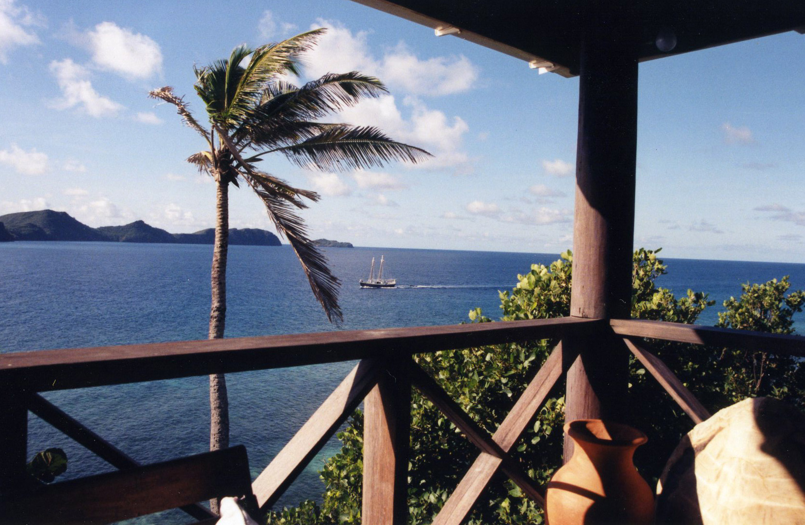 Bequia - view S-W with Isle Quatre on the left